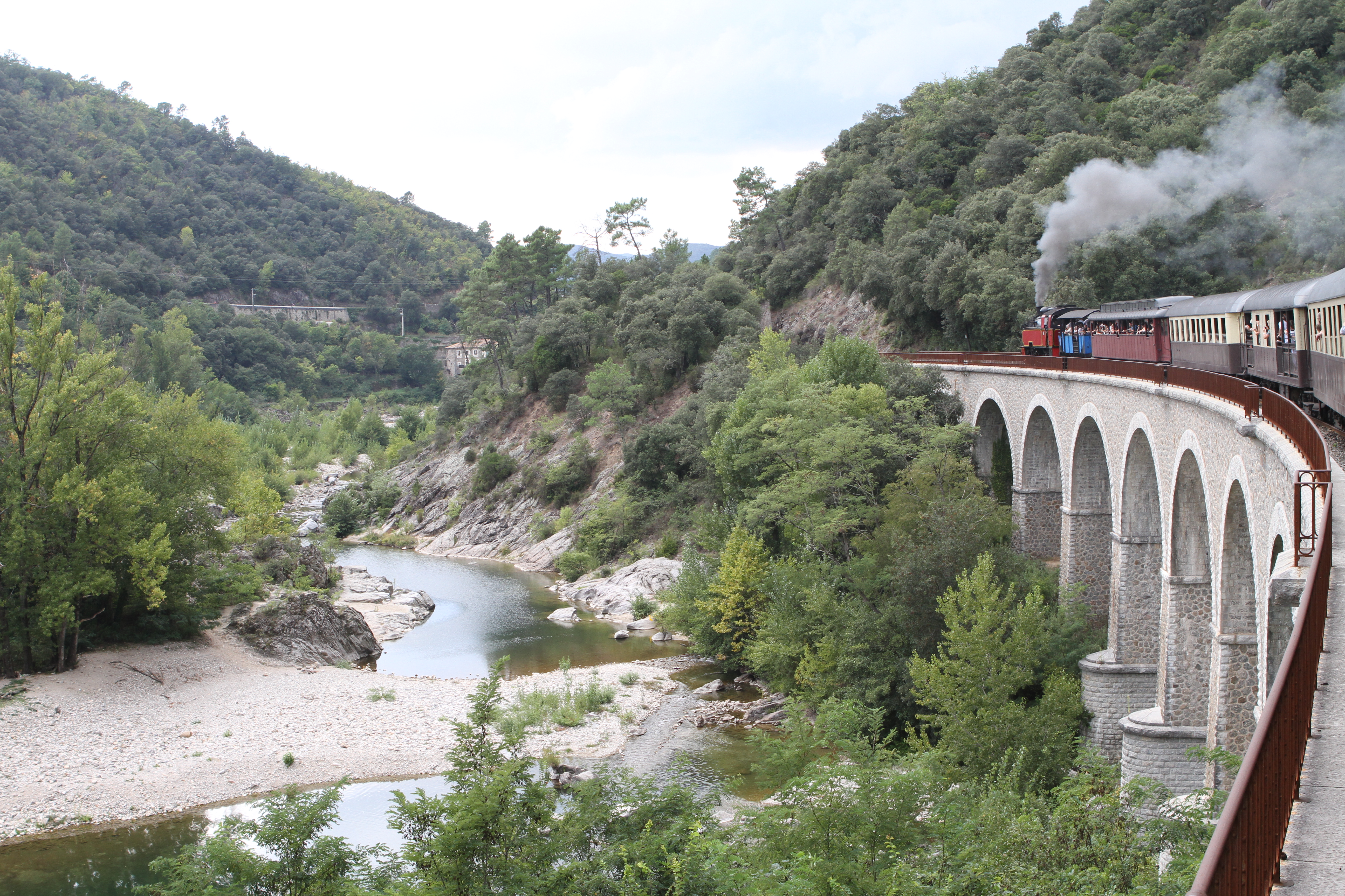 The steam train of Cevennes (Gard, France).